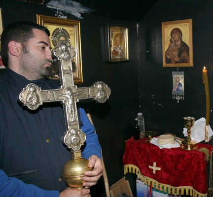 The cross of Saint Jovan Vladimir (or John Vladimir) in the Church of the Holy Trinity on Mount Rumija, held by Milan Andrović. The silver plating of the wooden cross is made in the 16th century. [Reference: Milović, Željko; Mustafić, Suljo (2001). Knjiga o Baru. Bar, Montenegro: Informativni centar Bar. p. 57]